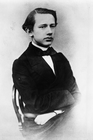 Portrait of Tchaikovsky as a legal student.